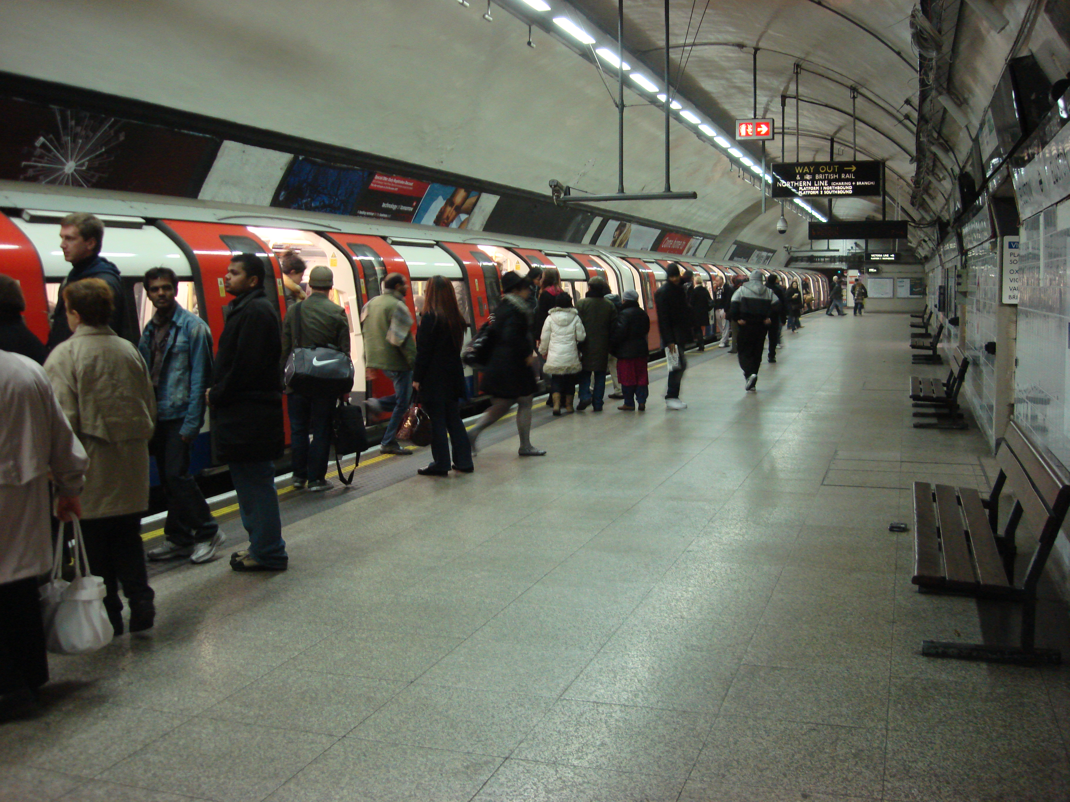 Euston tube station, Northern Line City branch, southbound platform In 1967, in line with the opening of the Victoria Line, and the construction of the new Euston main line railway station above, Euston tube station was substantially expanded and remodelled to cope with the increase in passenger numbers. The single island platform on the Northern Line City branch was suffering from dangerous congestion, so a new City branch northbound platform was constructed some way to the south and the old northbound track was removed to provide a wider southbound platform. Two new platforms for the Victoria Line were excavated between and parallel to the original and the new City branch tunnels to which they were directly linked.